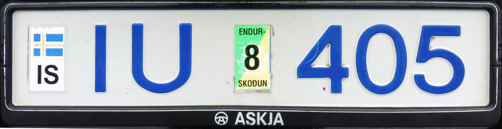 Icelandic license plate with a two-color validation sticker saying "Endurskoðun".